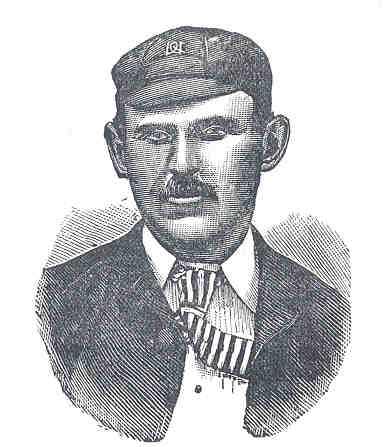 Arthur Shrewsbury - who died in 1903 - no artist attributed - in the UK copyright lasts for 70 years next following 31 Dec after drawing was drawn